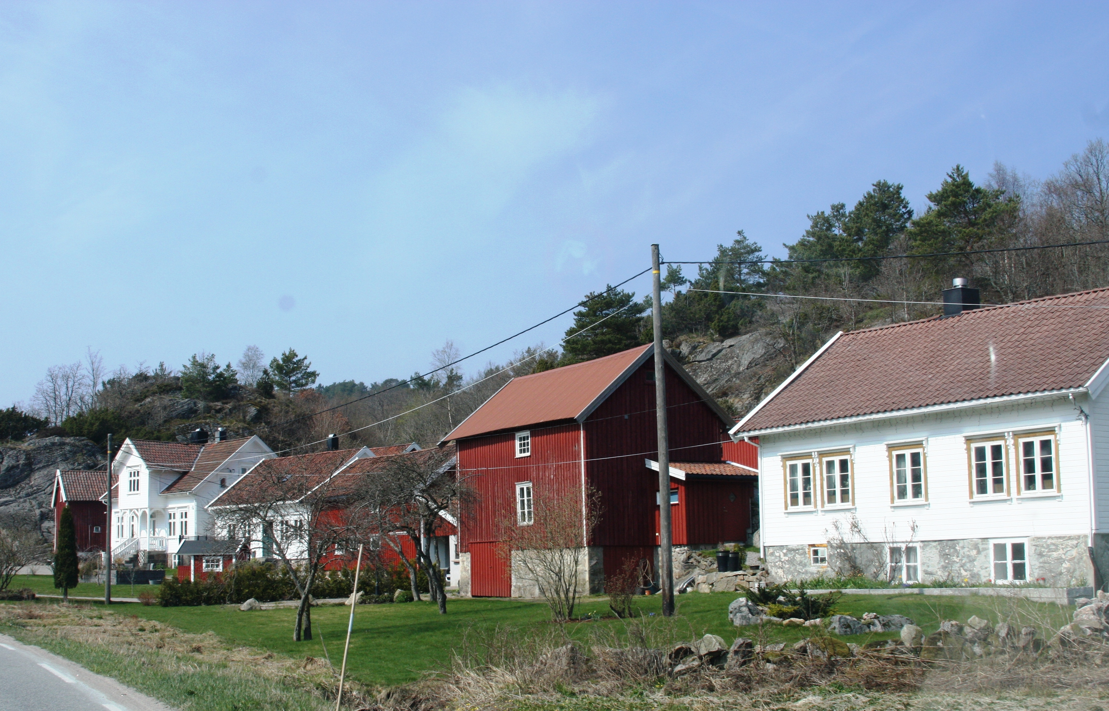 Tregde, a little village south-east in Mandal municipality, Norway. Tregde er et lite tettsted i Mandal kommune, Vest-Agder.